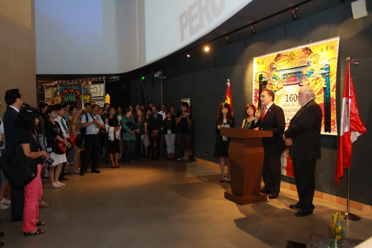 INAUGURACIÓN DE MUESTRA FOTOGRÁFICA SOBRE INICIOS DE INMIGRACIÓN CHINA AL PERÚ EN PABELLÓN NACIONAL EN EXPO SHANGHAI